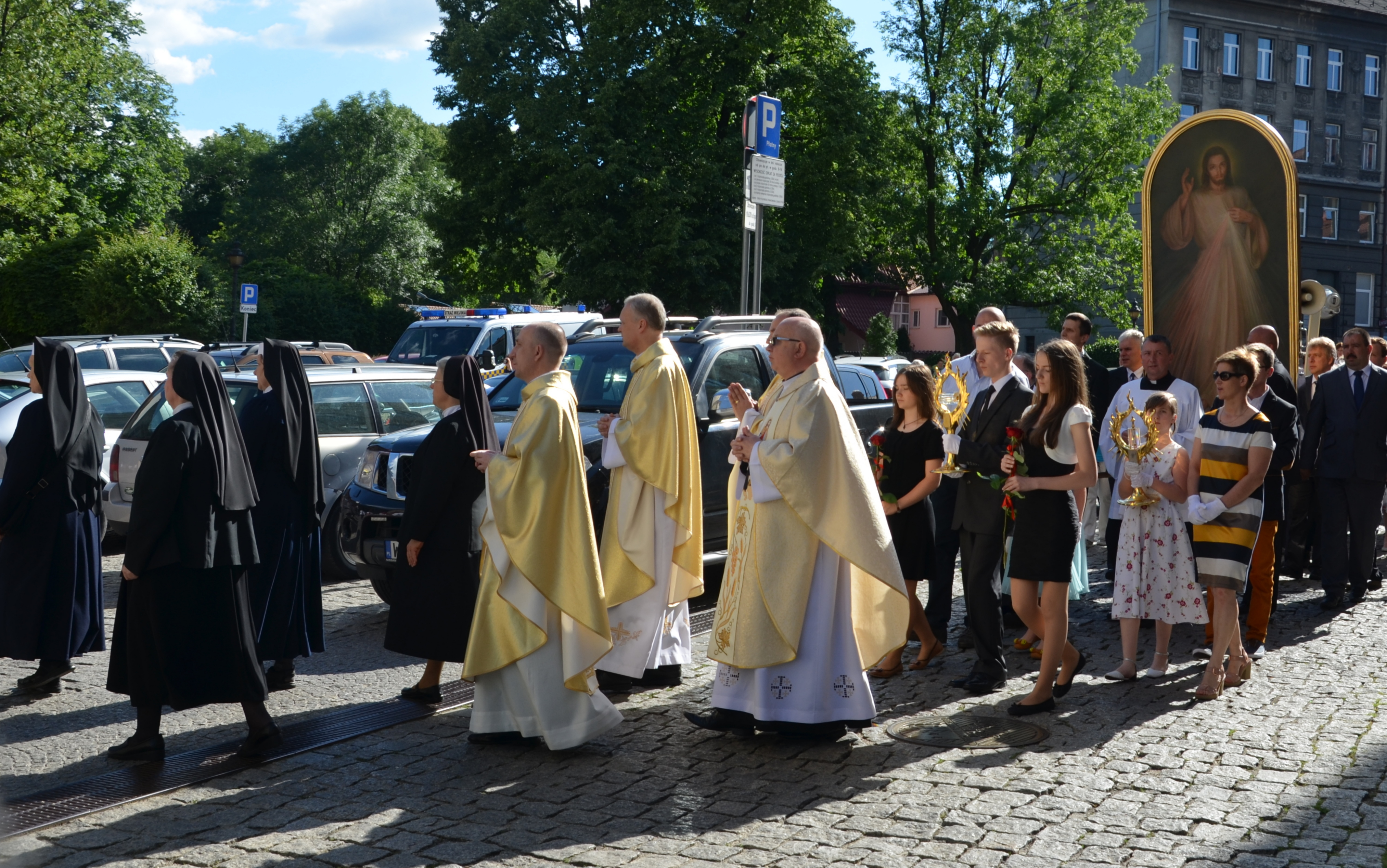 Katholischer Wallfahrt im Zeichen von Gottes Barmherzigkeit, Bielitz